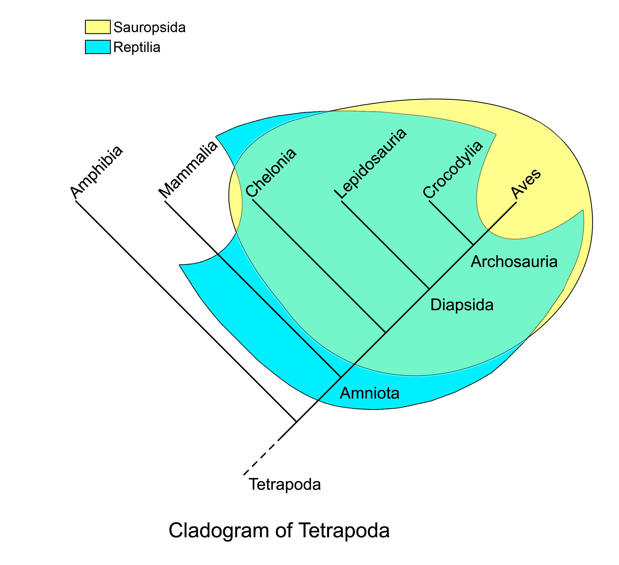 Cladogram of the Tetrapoda, with Sauropsida and the class Reptilia marked up. The two are largely overlapping, but the traditional class Reptilia is trait based and includes the earliest amniotes, as well as the mammal-like reptiles. Sauropsida includes the birds and is a clade.